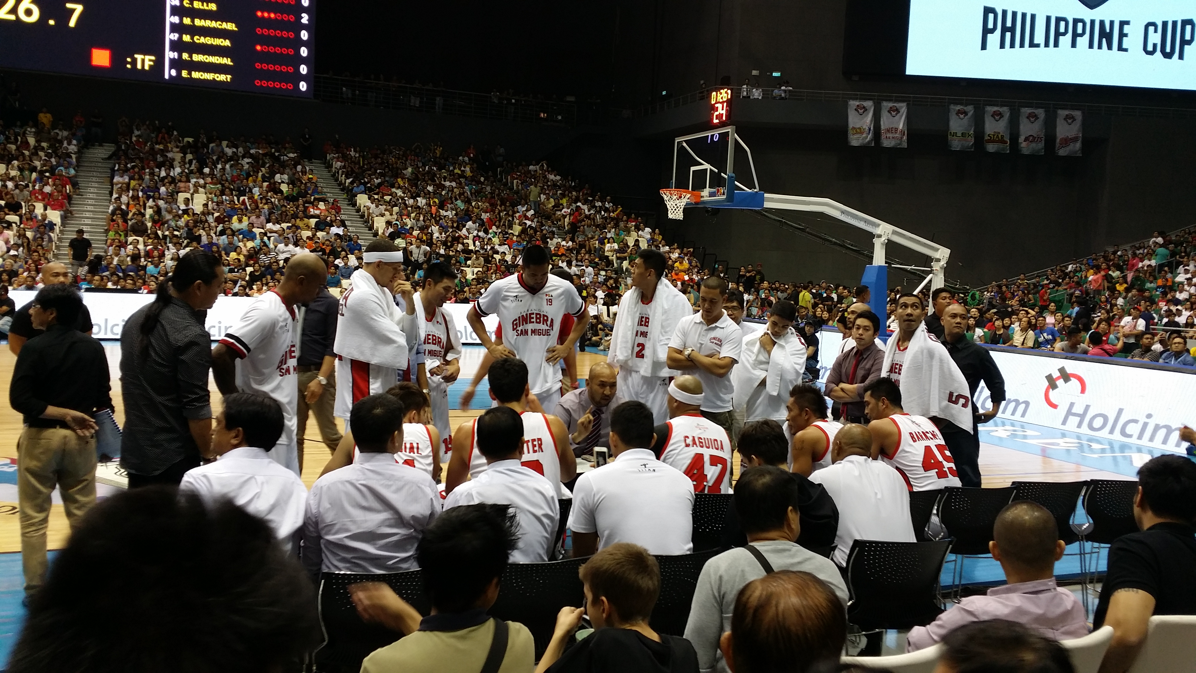 Barangay Ginebra San Miguel during their timeout